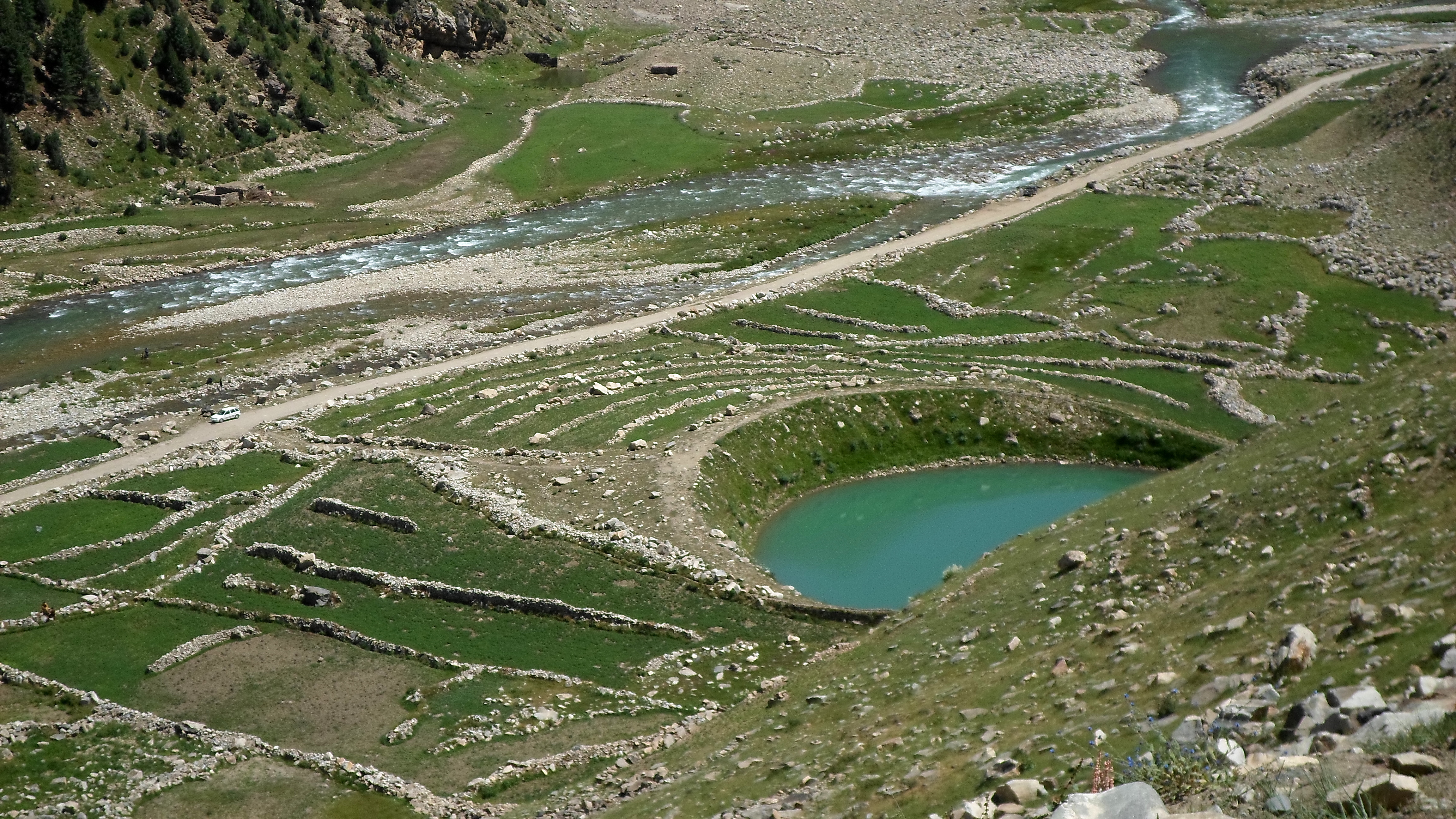 Pyala Lake (cup shaped lake) beneath Kunhar River in Jalkhand, Balakot Tehsil, Khyber Pakhtunkhwa, Pakistan